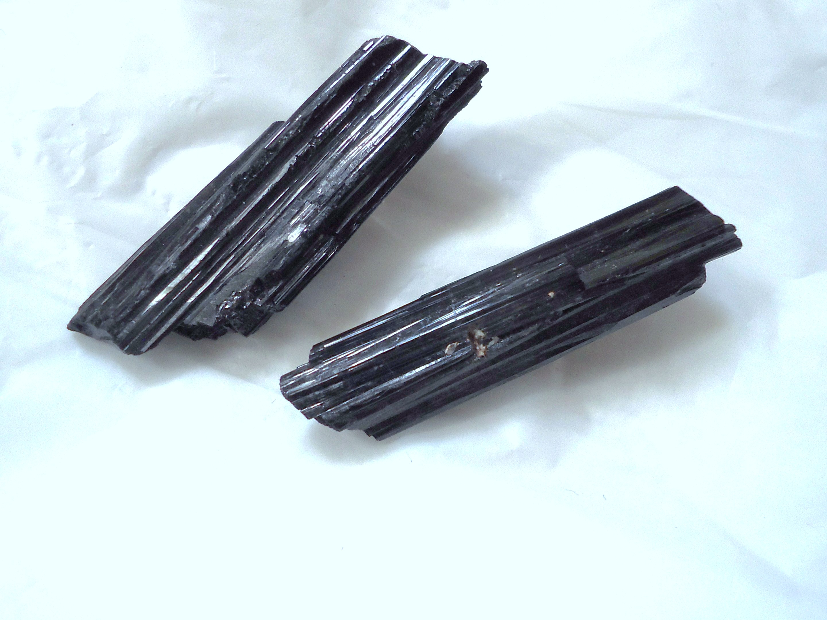 Length: about 40 mm each. Origin: Brazil